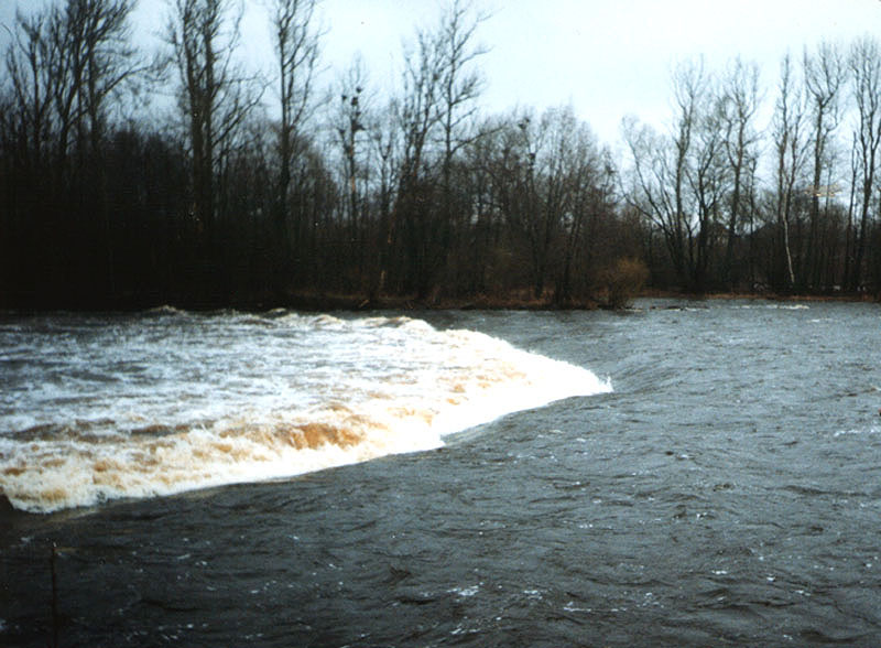 Photo of Lestniza rapids, Msta River, Russia